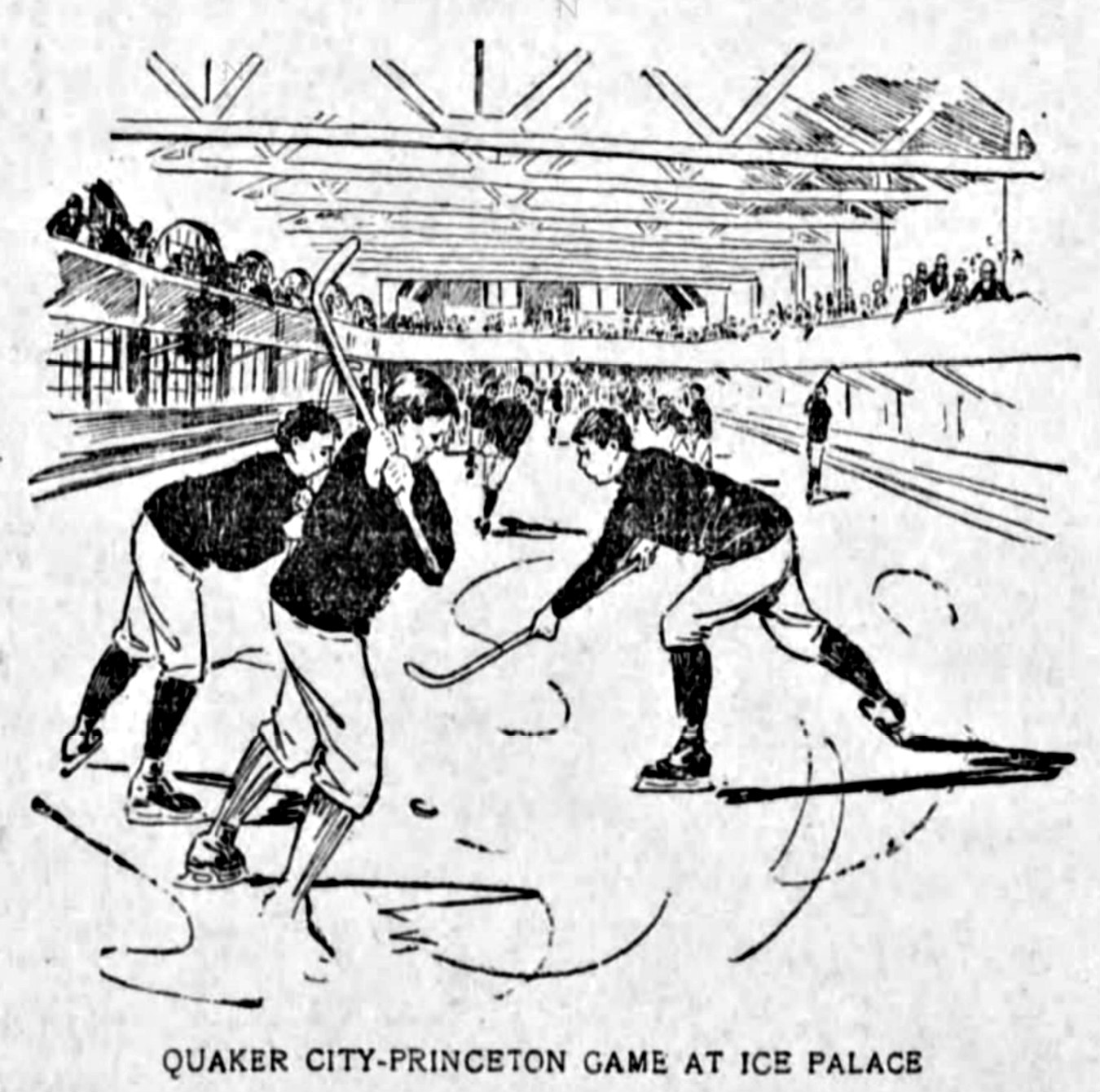 Illustration of ice hockey game between the Quaker City Hockey Club and a team from Princeton University at the West Park Ice Palace in Philadelphia.